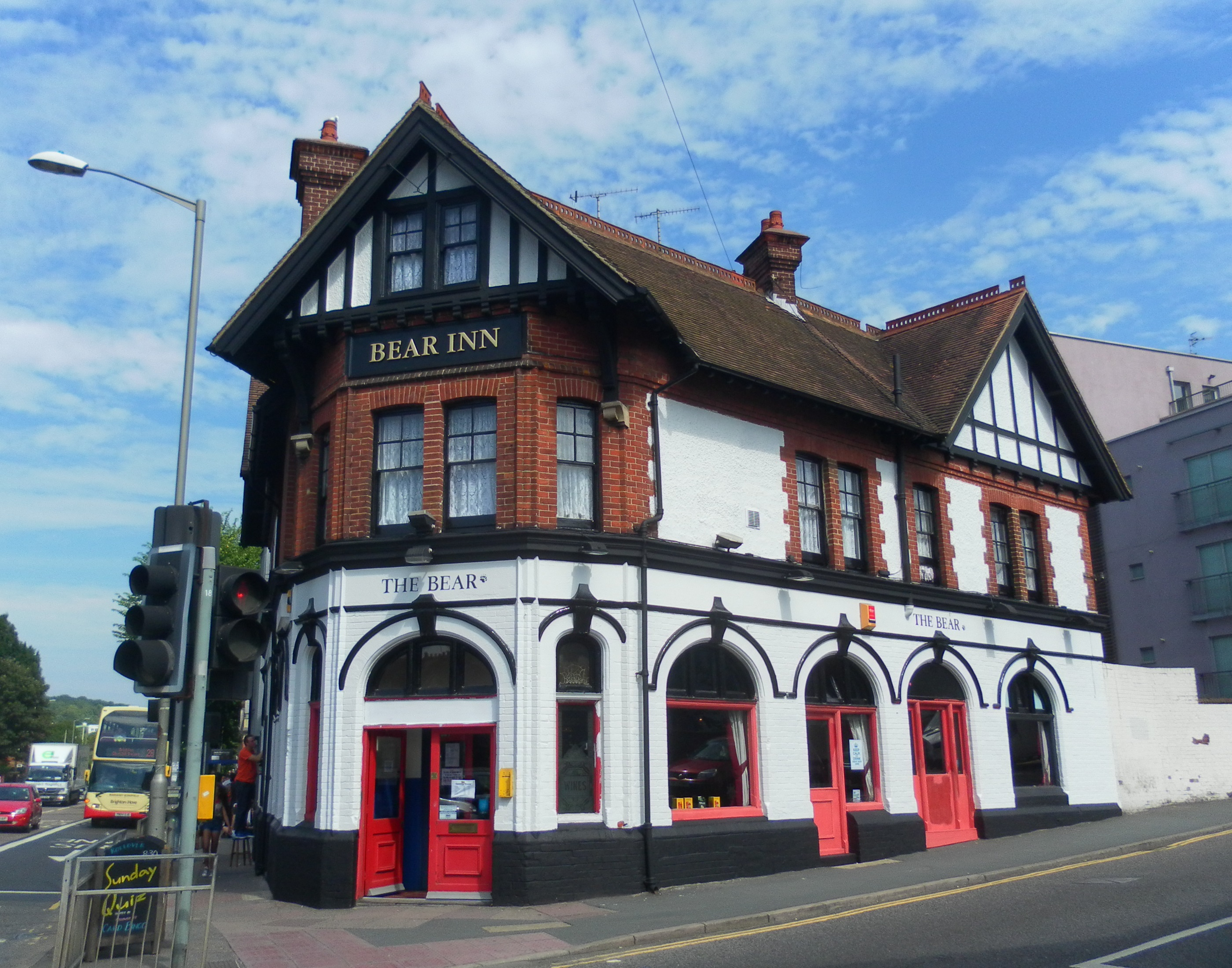 The Bear Inn, Junction of Lewes Road and Bear Road, Brighton. Built on the site of an 18th-century inn famed for bear- and badger-baiting. The name of the road (and the associated residential area) was taken from the old inn. Bear Road runs off to the right; Lewes Road is visible on the left.